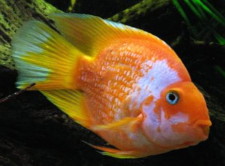 A Picture of my large Blood Parrot